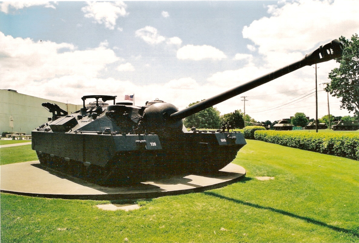 Front three-quarter view of the T28 at the Patton Museum. T28 Super Heavy Tank - no longer on exibit as it has been prepared to move to Fort Benning GA.